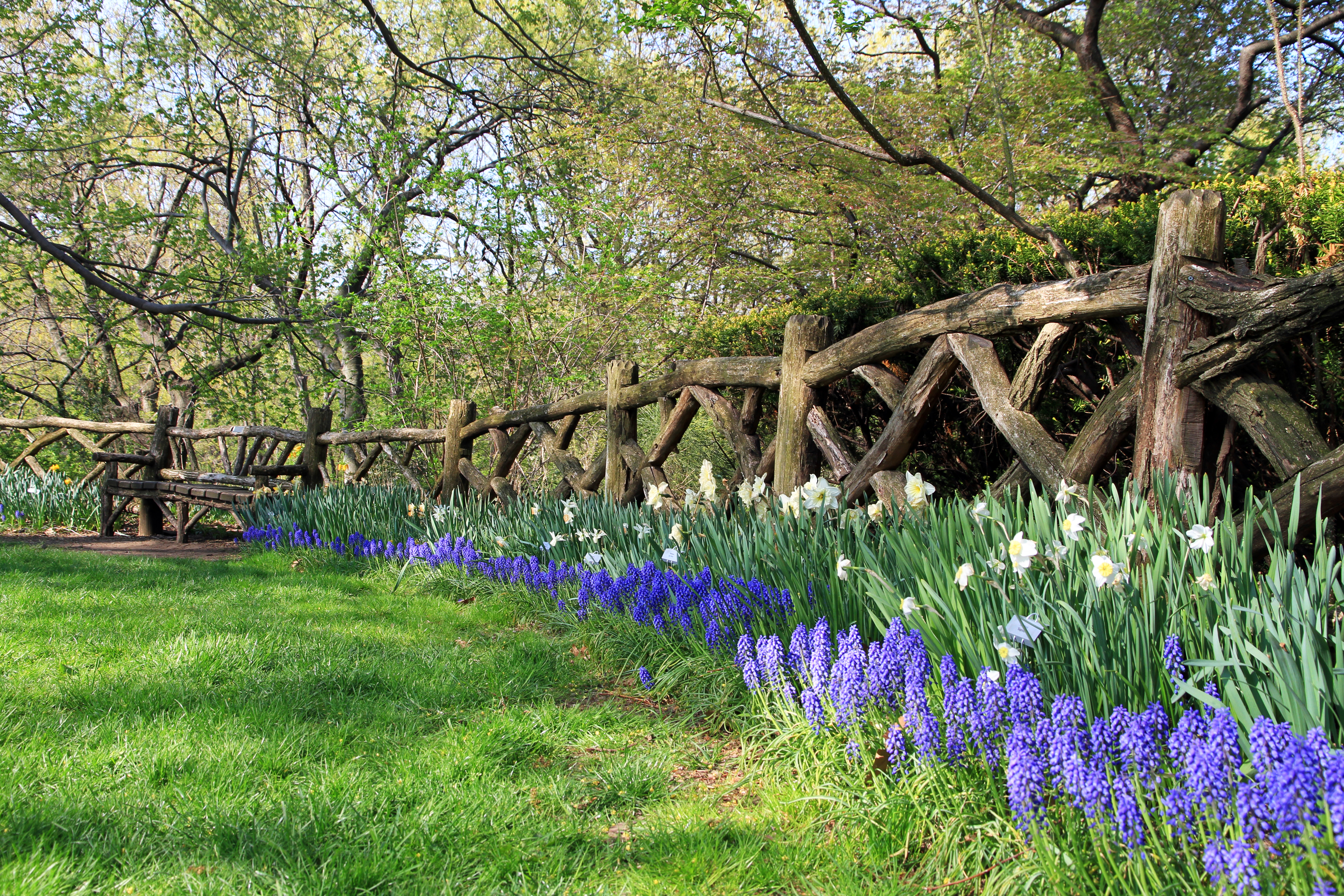 Shakespeare Garden